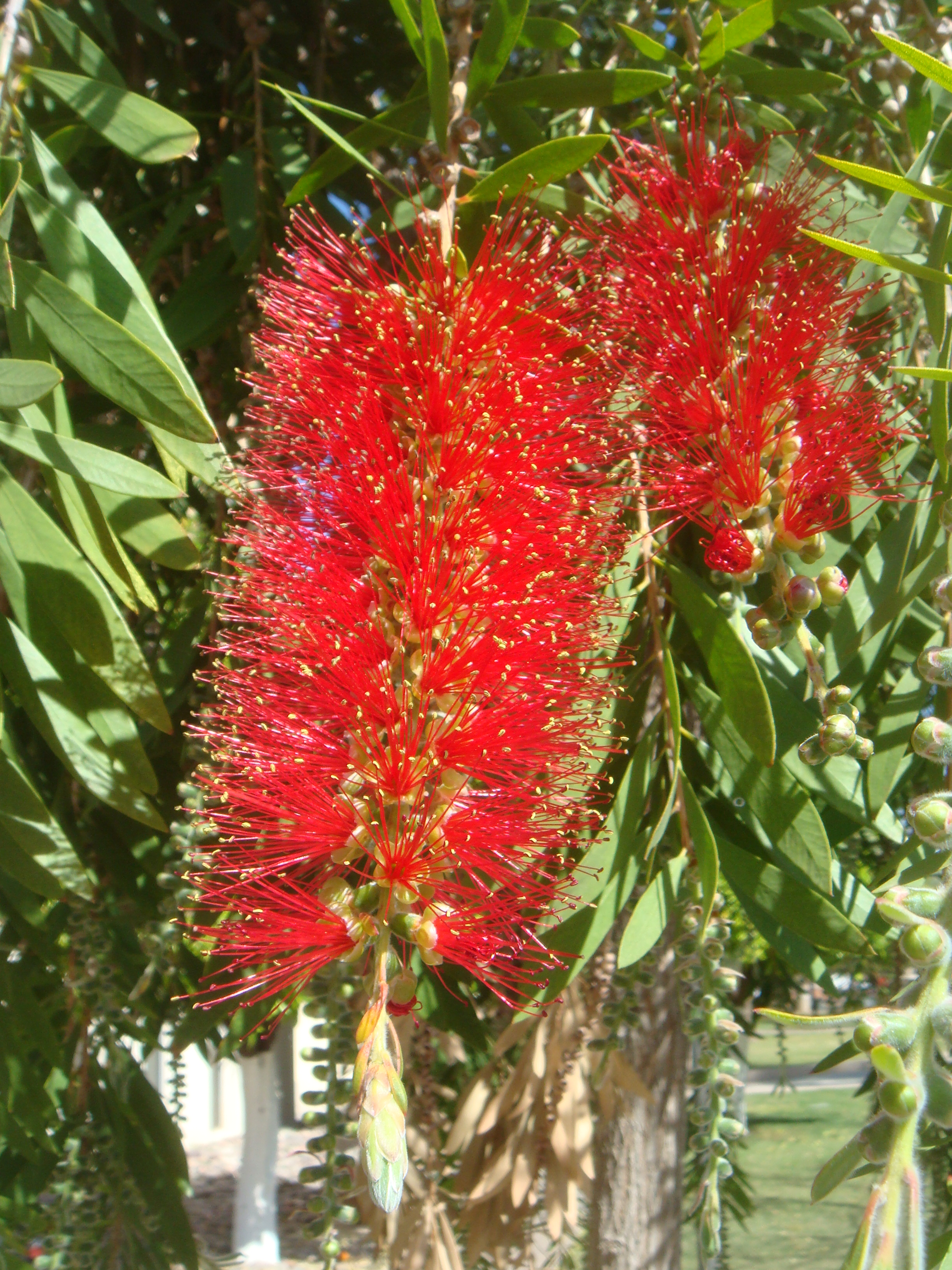 Callistemon viminalis, cultivated, Arizona State University, Tempe, Arizona